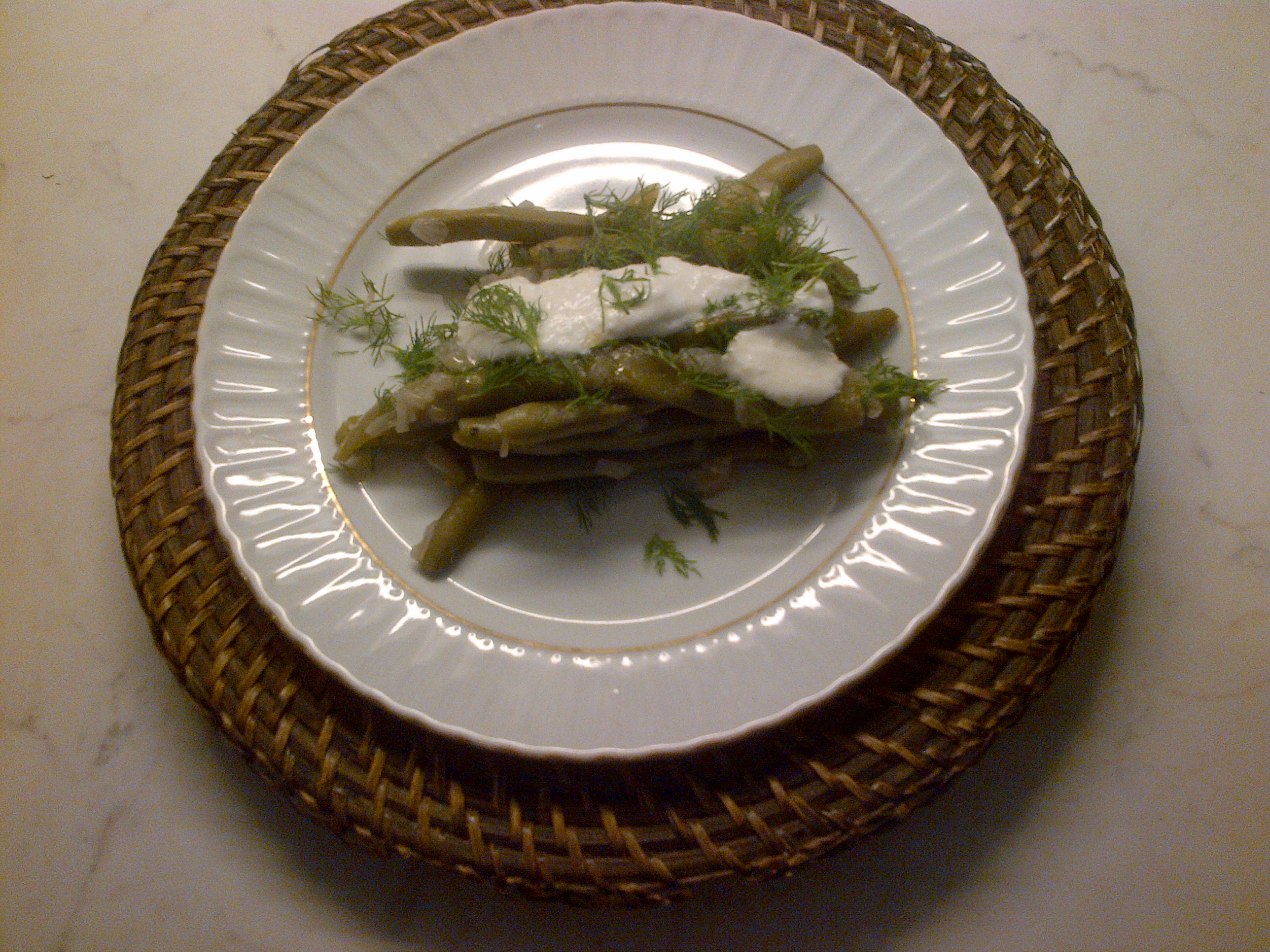 "Zeytinyağlı (taze) bakla", or green broad beans with olive oil, is a spring-time dish of the Turkish cuisine. It is always served with fresh dill leaves and generally also with agarlic yogurt sauce.